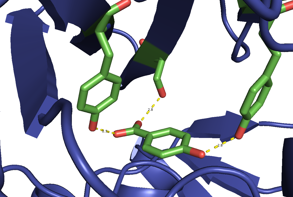 4-hydroxybenzoate 3-monooxygenase residues that hydrogen bond with substrate.